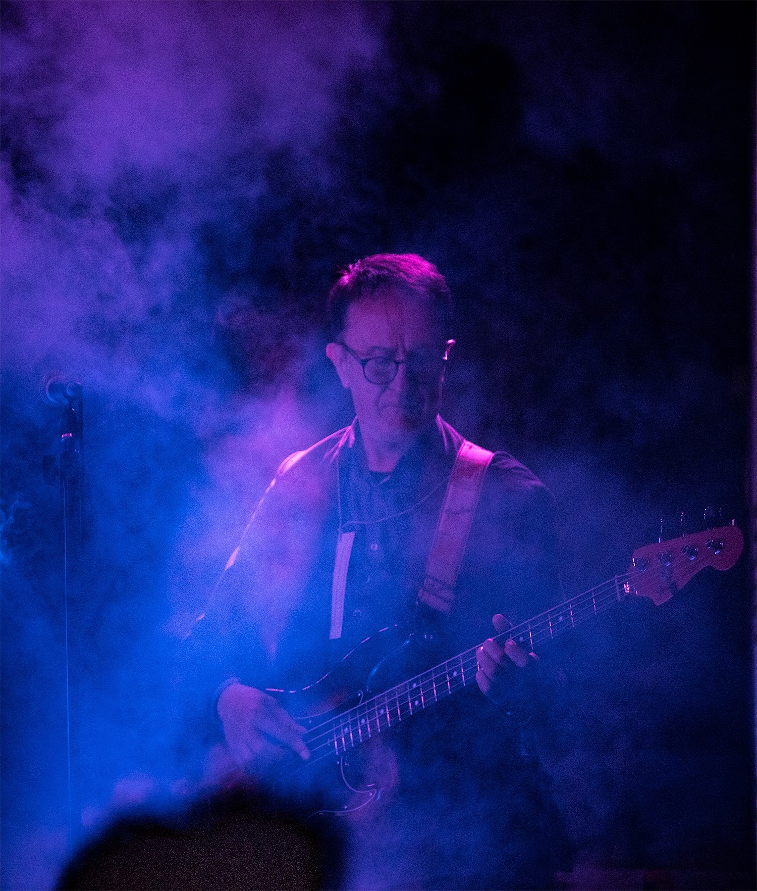 Mikser Festival, Beograd (2019)